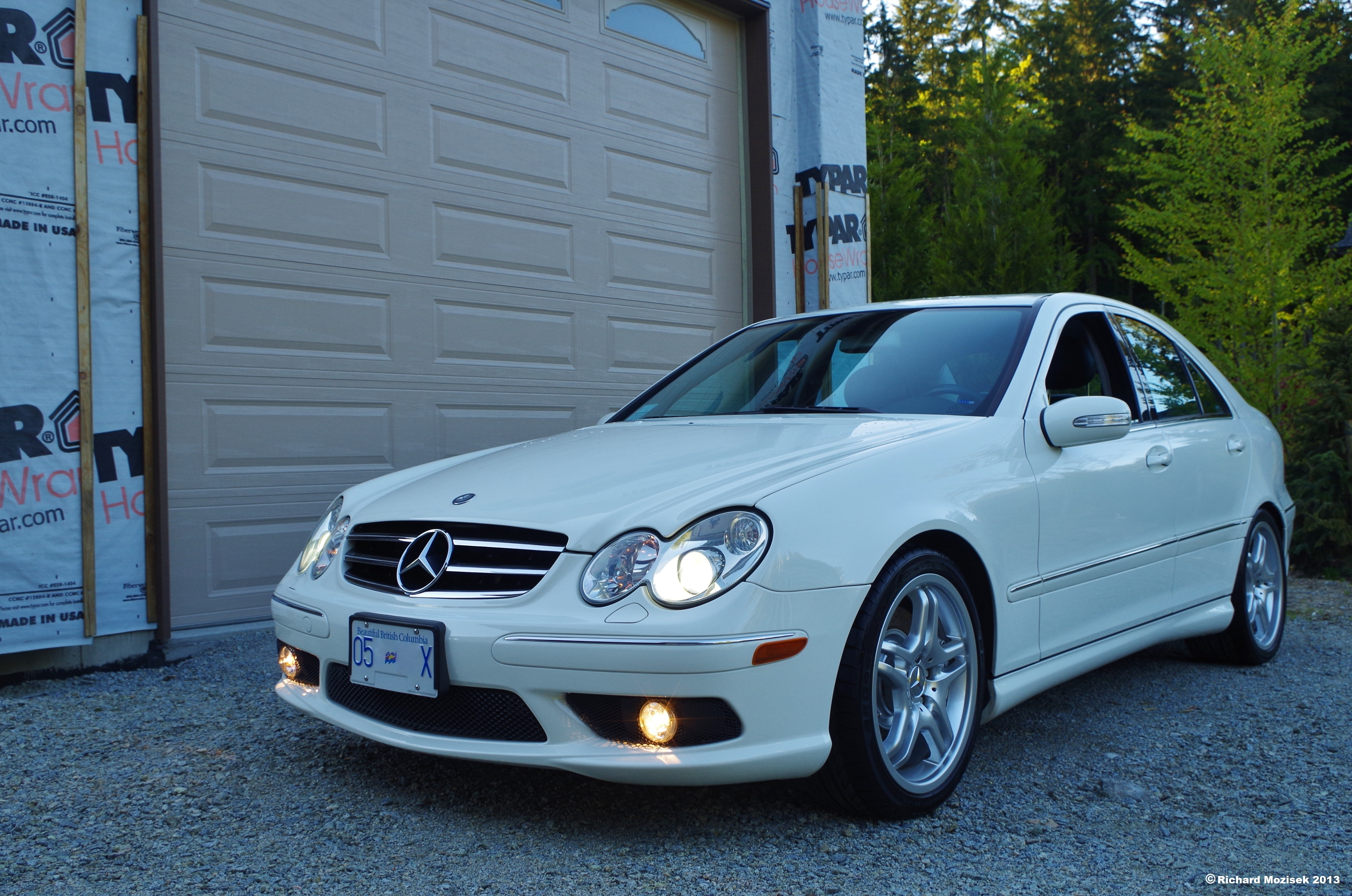 C55 AMG (Canada)